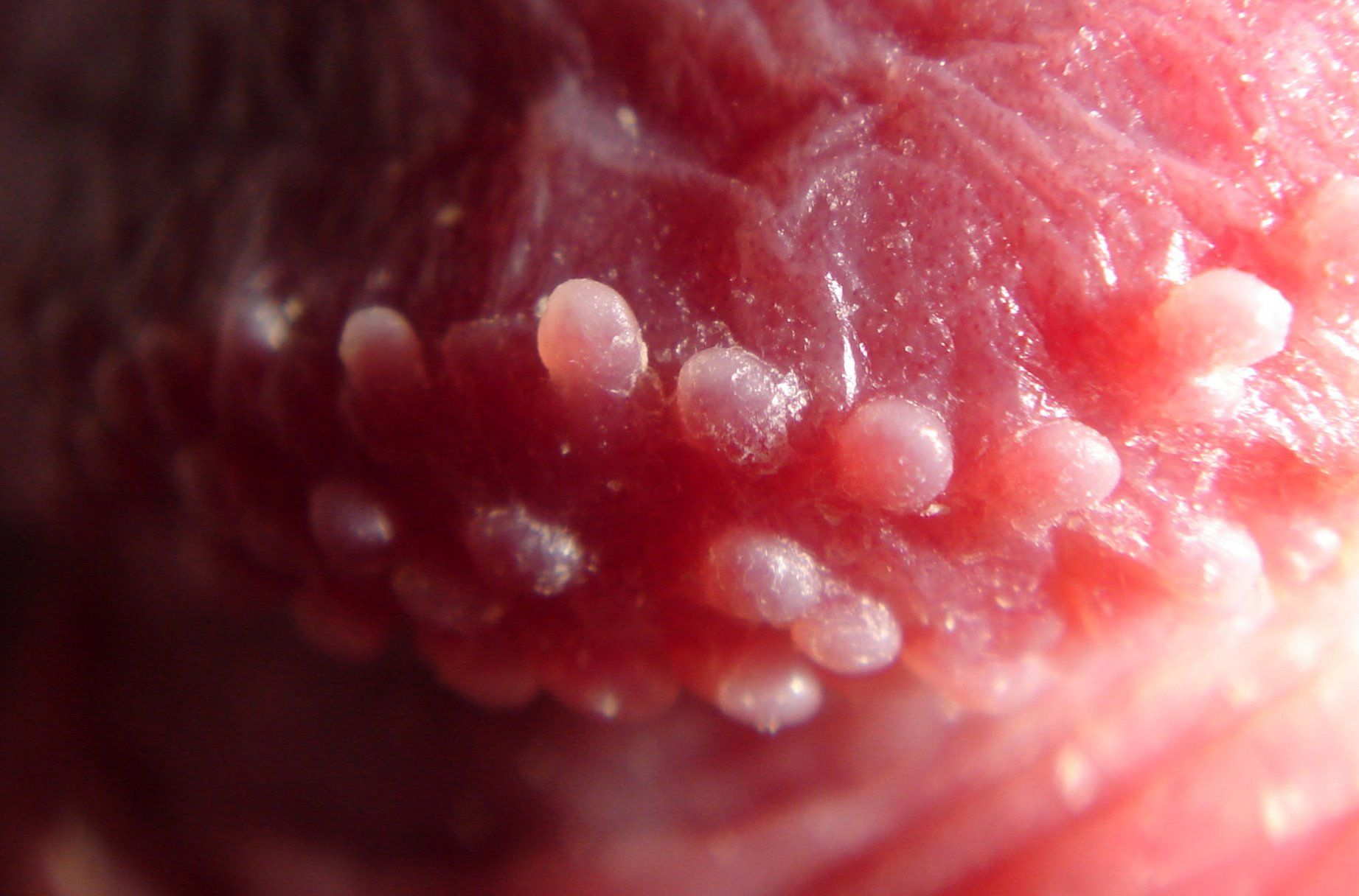 Glans penis with Hirsuties papillaris penis. Papules are common on uncircumcised penises.